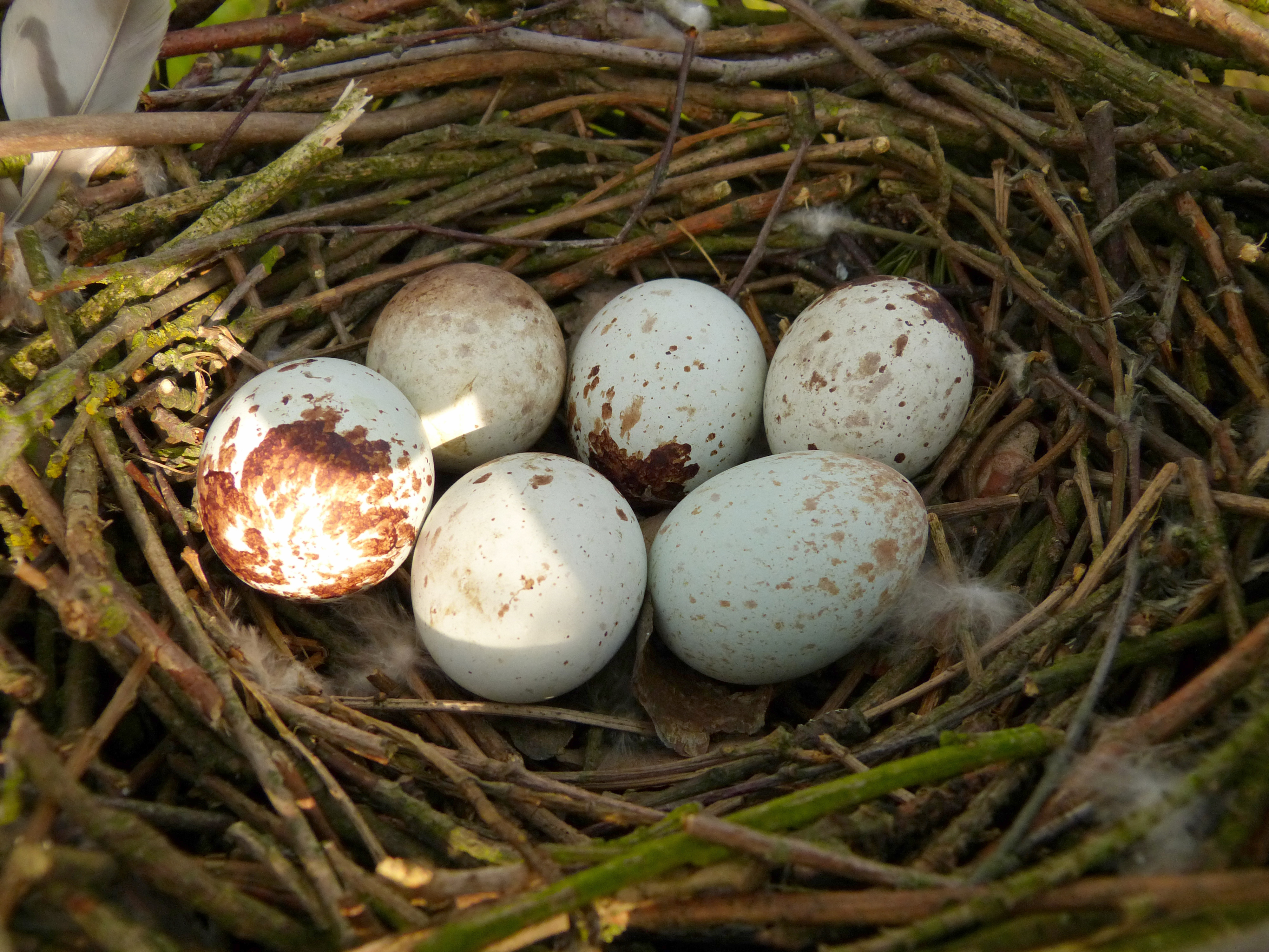 My lad said he had found a crows nest the day before and wanted a big fat chick with its eyes ready for opening so he could have it as a pet as i had had one when i was a kid and they make good companions. So off i went up, my lad said he saw something fly off although i didn't see no tail sticking out and didn't know what to expect and this was my surprise. I rattled off a few shots then came flying back down and couldn't believe what it had turned out to be. I can only surmise that the only reason i didn't see no tail was that the smaller male may have been sat instead of the more usual bigger female.